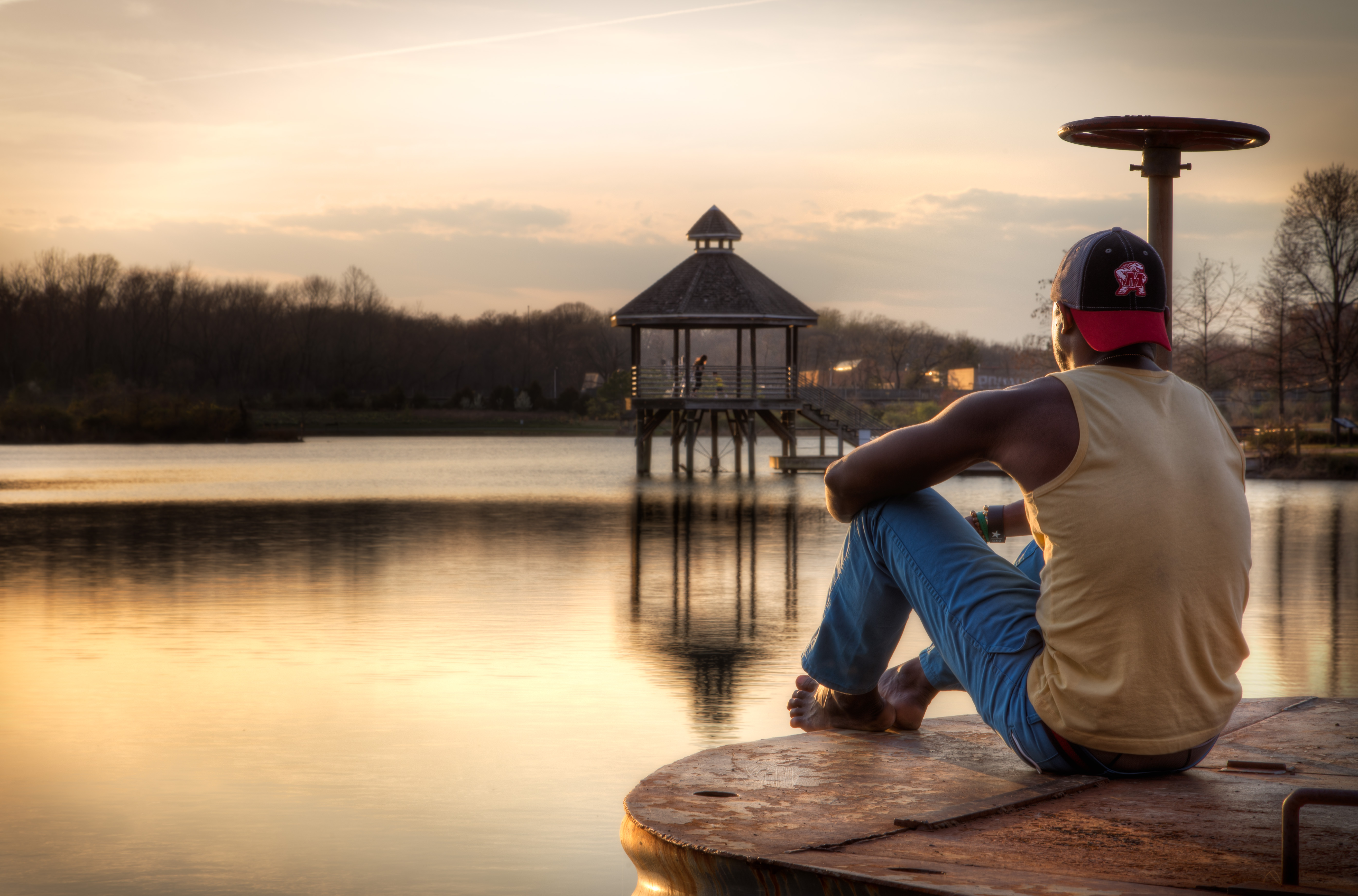 I spotted a young man enjoying the sunset at Lake Artemesia in College Park and had to ask him for a photo.